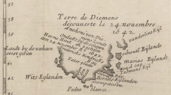 Melchisedech Thevenot (1620?-1692): Hollandia Nova detecta 1644; Terre Australe decouuerte l'an 1644, Paris: De l'imprimerie de Iaqves Langlois, 1663 Based on a map by the dutch cartographer Joan Blaeu.